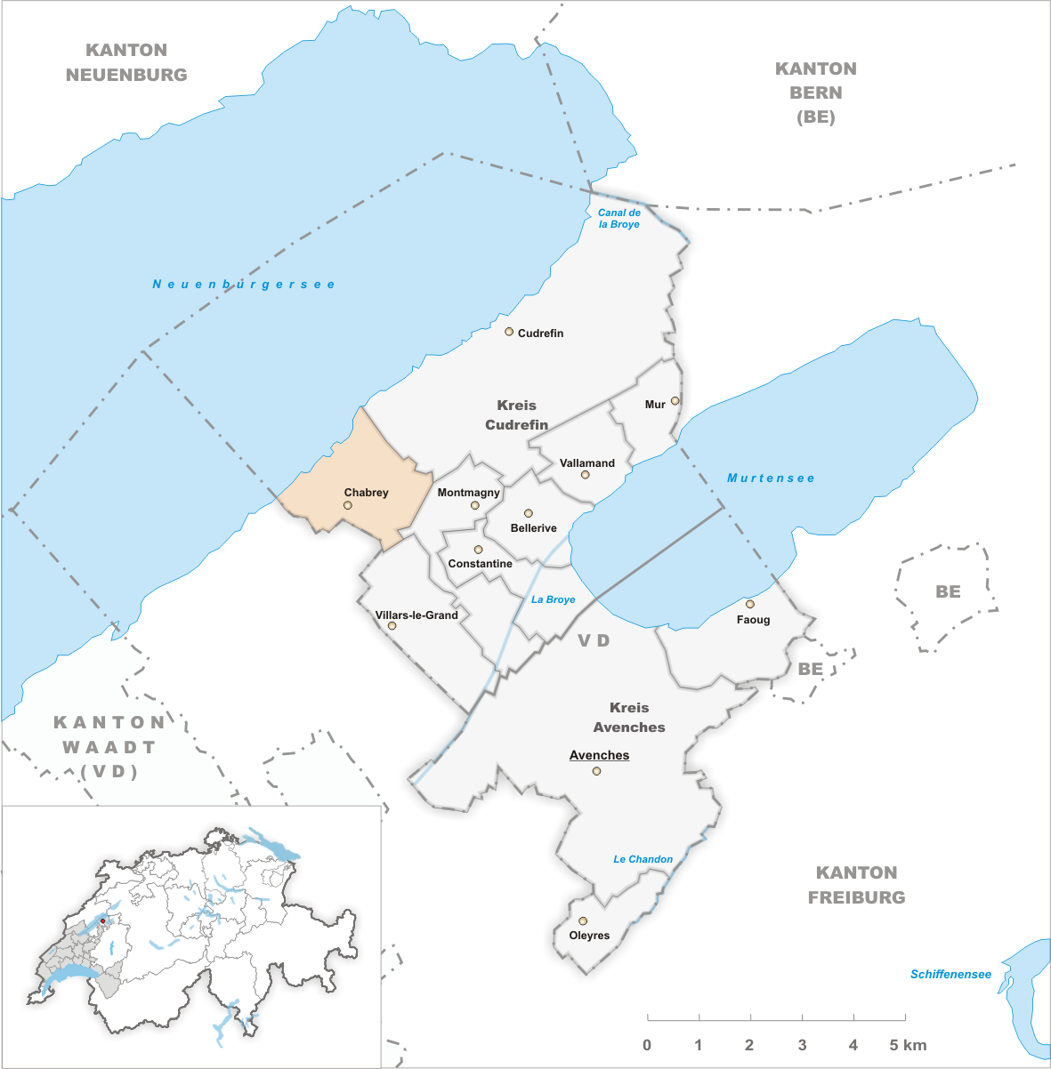 Municipality Chabrey